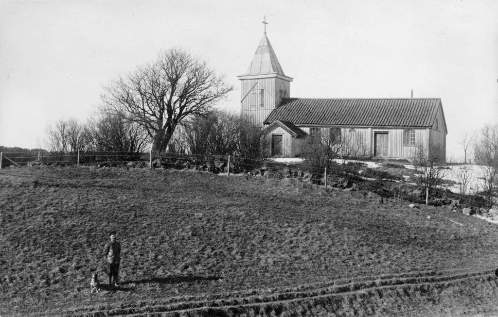 Man and dog in a field outside Härjevad Old Church. The wooden church, originally built in the 17th century, was moved in 1921 to an Open-Air Museum in Skara town, part of the Västergötland Museum.